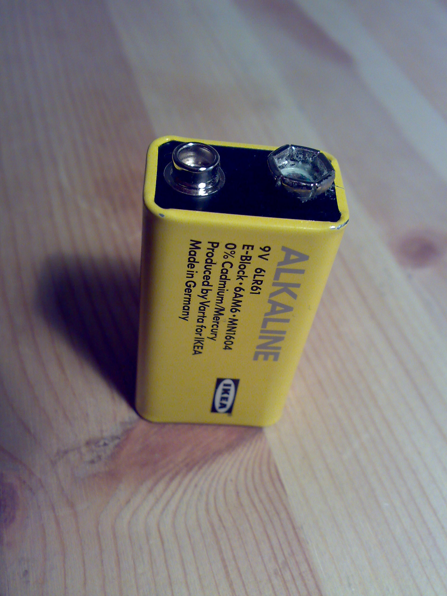 Electrical battery batteri